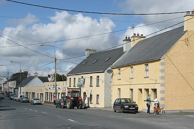 Killimor Looking north-west along the main street of the market village of Killimor. The N65 passes through.